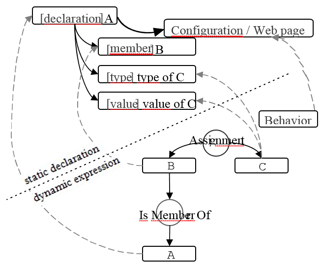 Dynamic Syntax Tree Structure